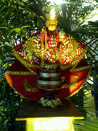 Sto. Niño del Cebu